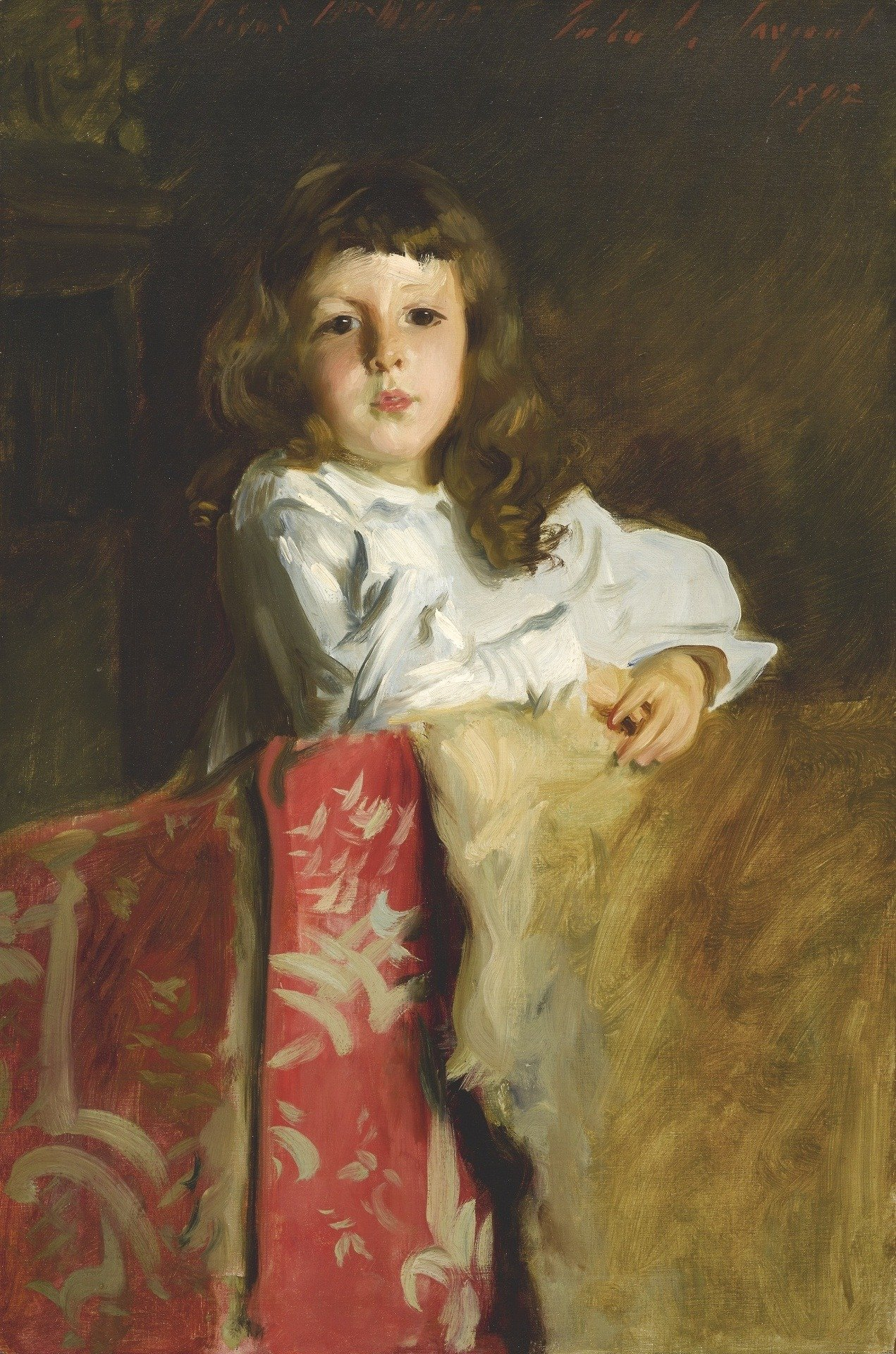 Portrait of John Alfred Parsons Millet by John Singer Sargent, 1892, 36 1/4 x 24 1/8 in, San Diego Museum of Art